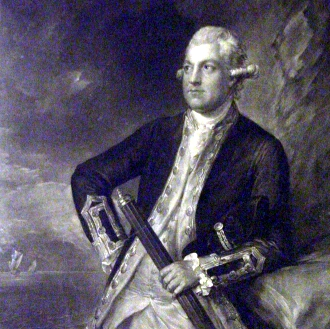 Sir Charles Thompson, 1st baronet Thompson (c.1740 – 17 March 1799, Fareham) was a British naval officer.